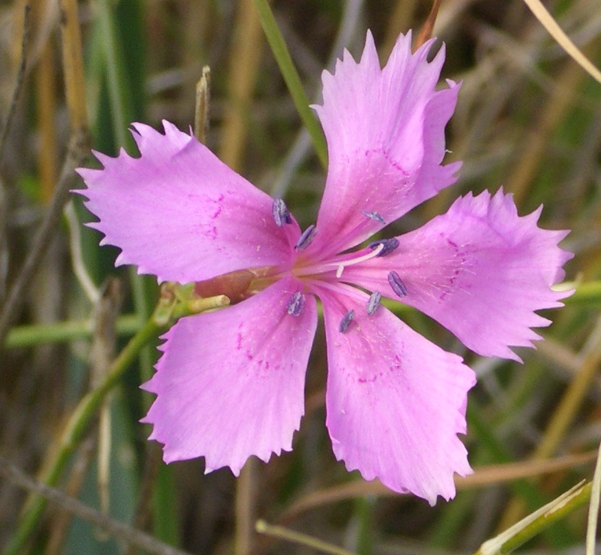 Clove pink (Dianthus caryophyllus L.), Taurus Mountains, Mersin, Turkey.